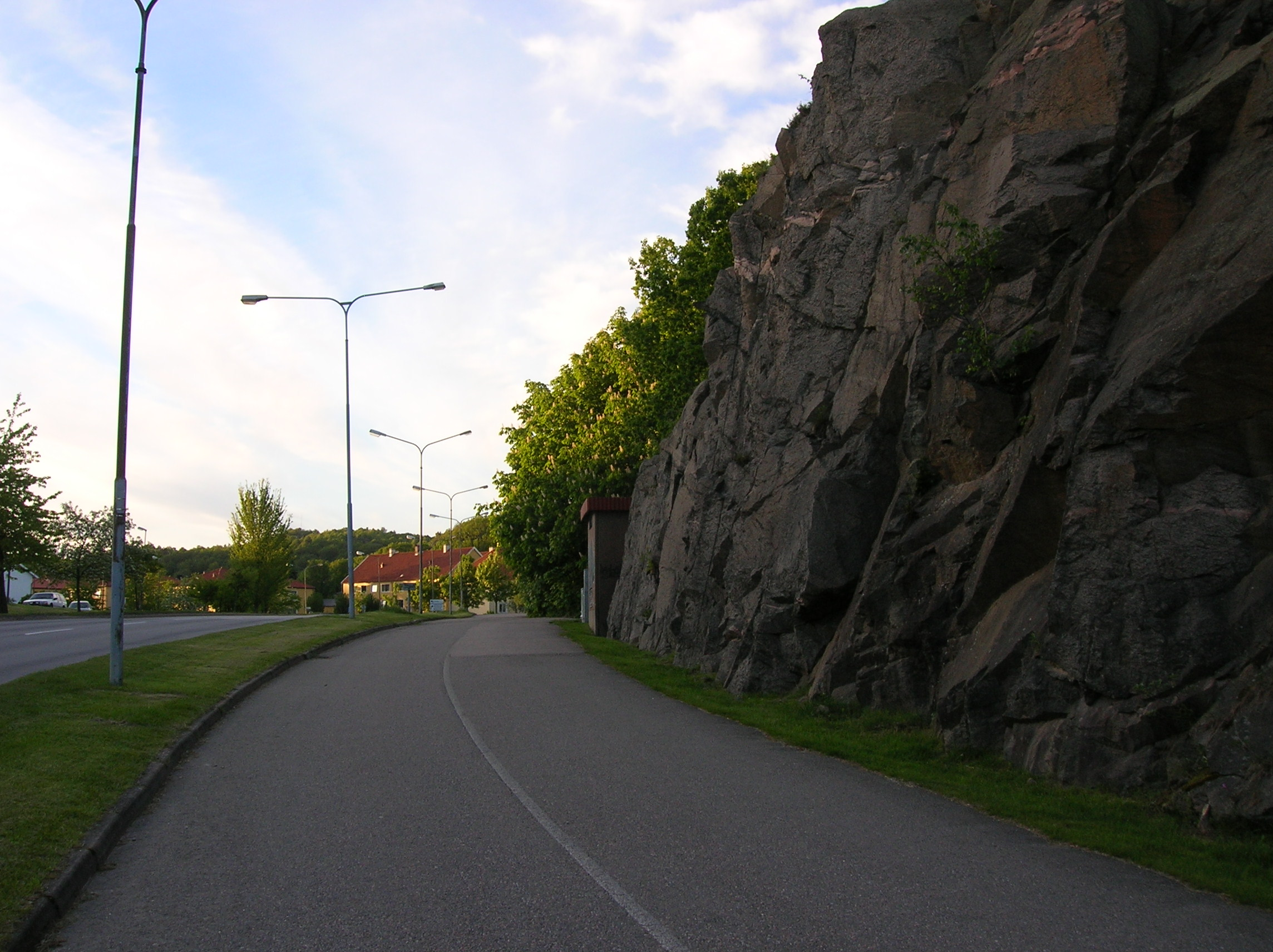 A mountain wall and a road in Uddevalla, Sweden